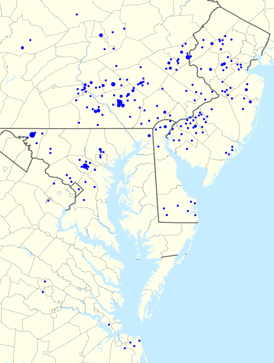 Footprint of Fulton Financial Corp. branches within the eastern seaboard of the United States. Zip codes with more than one branch have progressively larger points.